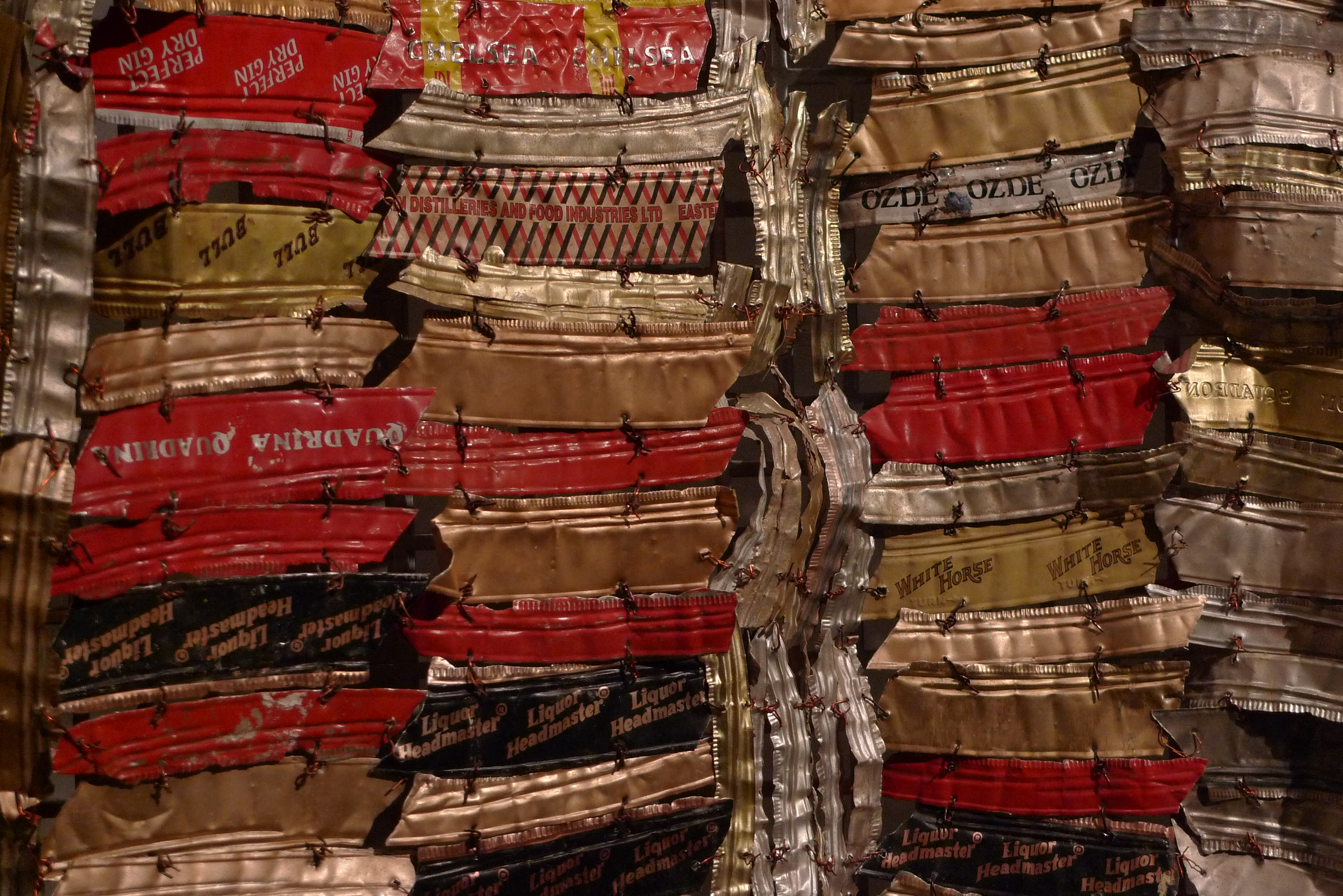 Close up of Man's Cloth by El Anatsui showing the bottleneck wrapper construction of the artwork. On public display at The British Museum, Department of Africa, Oceania and the Americas.